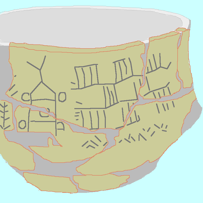 drawing of the Bronocice bowl with its carvings, showing the left one of the two wagons beneath something like a bridge.